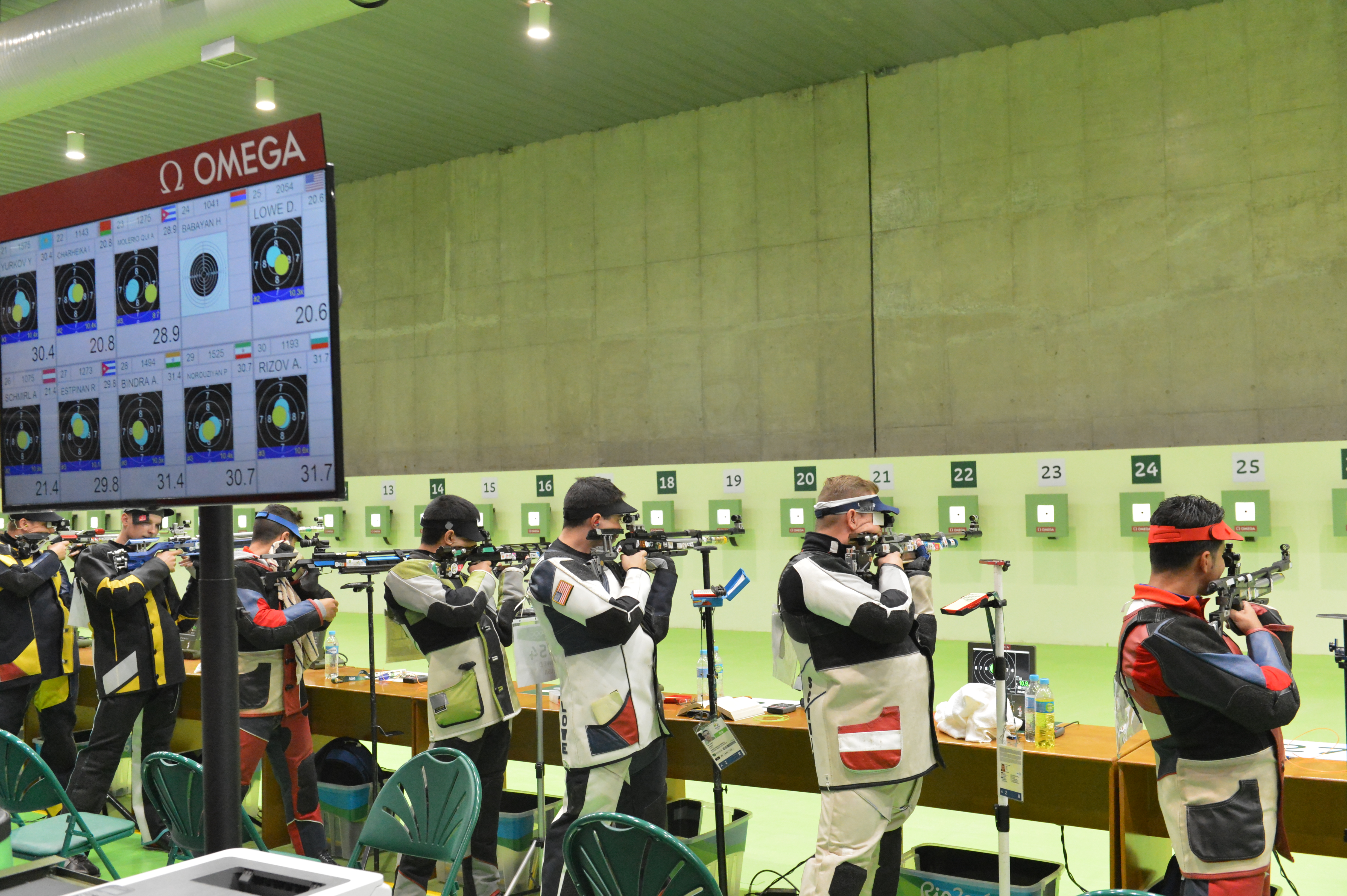 Spc. Dan Lowe Rio Olympics air rifle